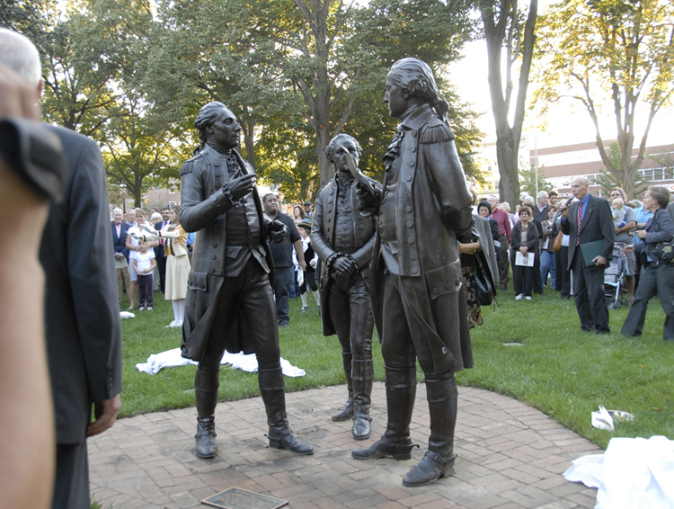 Bronze figures of George Washington, Alexander Hamilton and the Marquis de Lafayette at the Morristown Green, Morristown, NJ (2007).